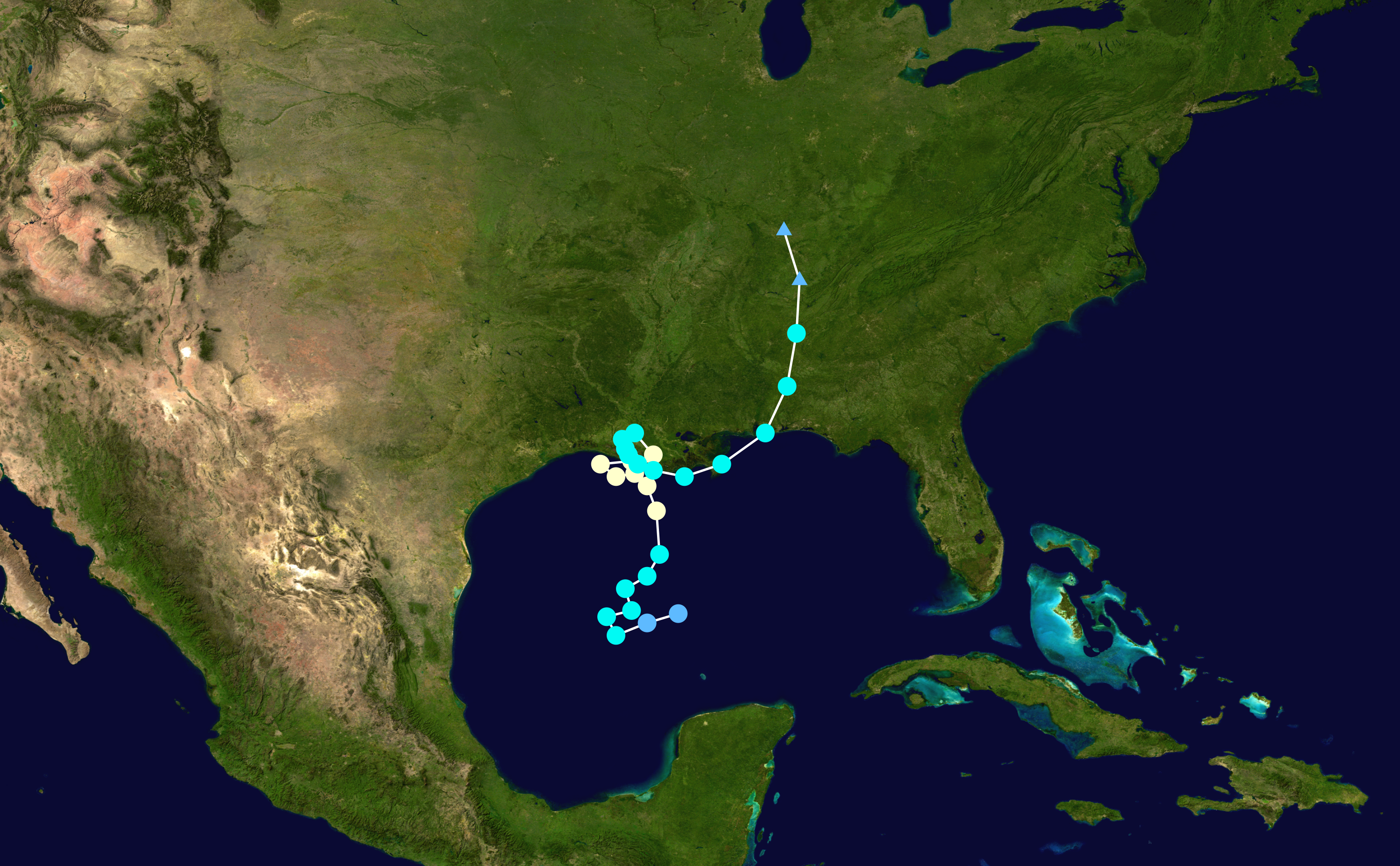 Hurricane Juan (1985) track. Uses the color scheme from the Saffir-Simpson Hurricane Scale.